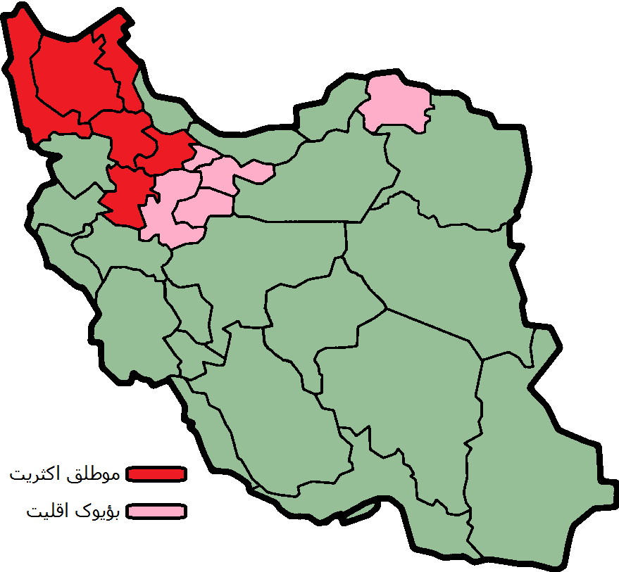 Provinces of Iran with significant Turkic-speaking population.